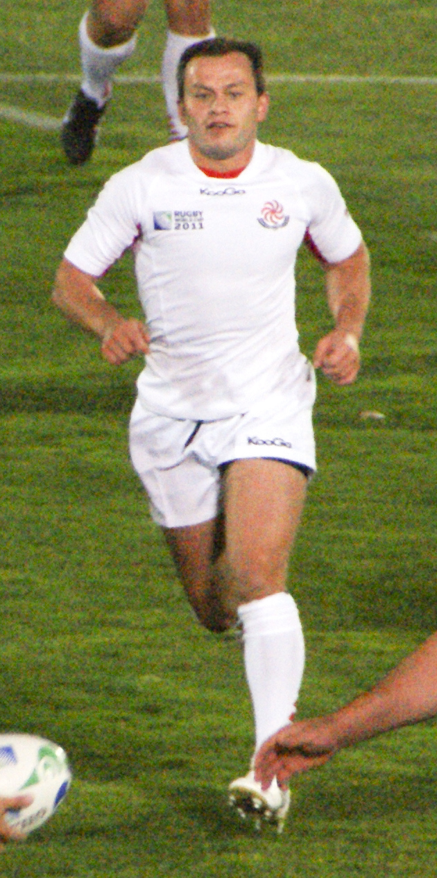 Match between Georgia vs Romania during 2011 Rugby World Cup in New Zealand.